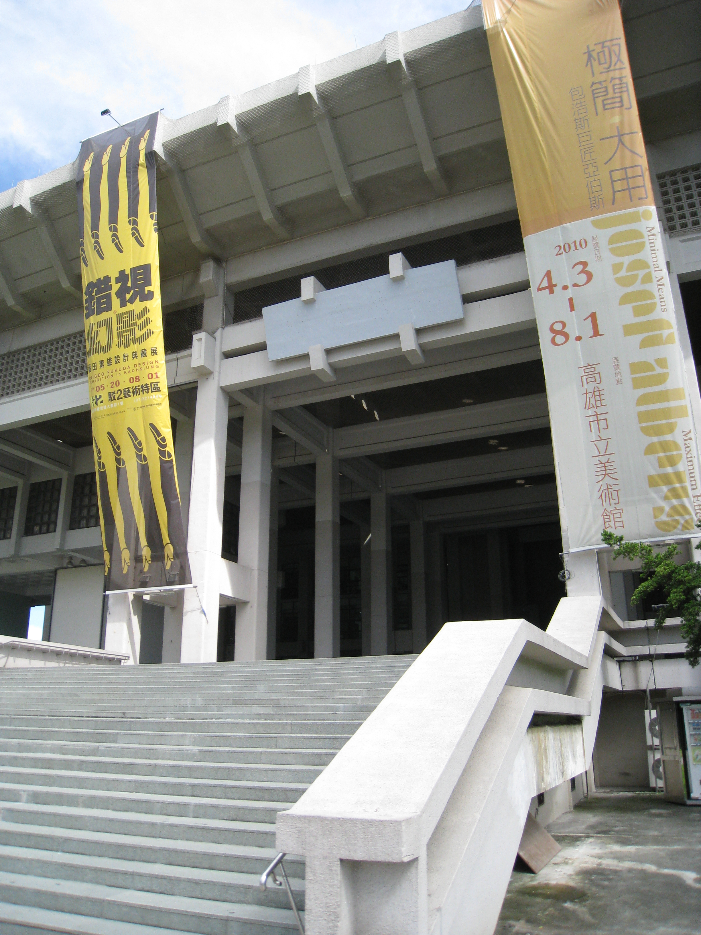 Entrance stair of Kaohsiung Cultural Center.